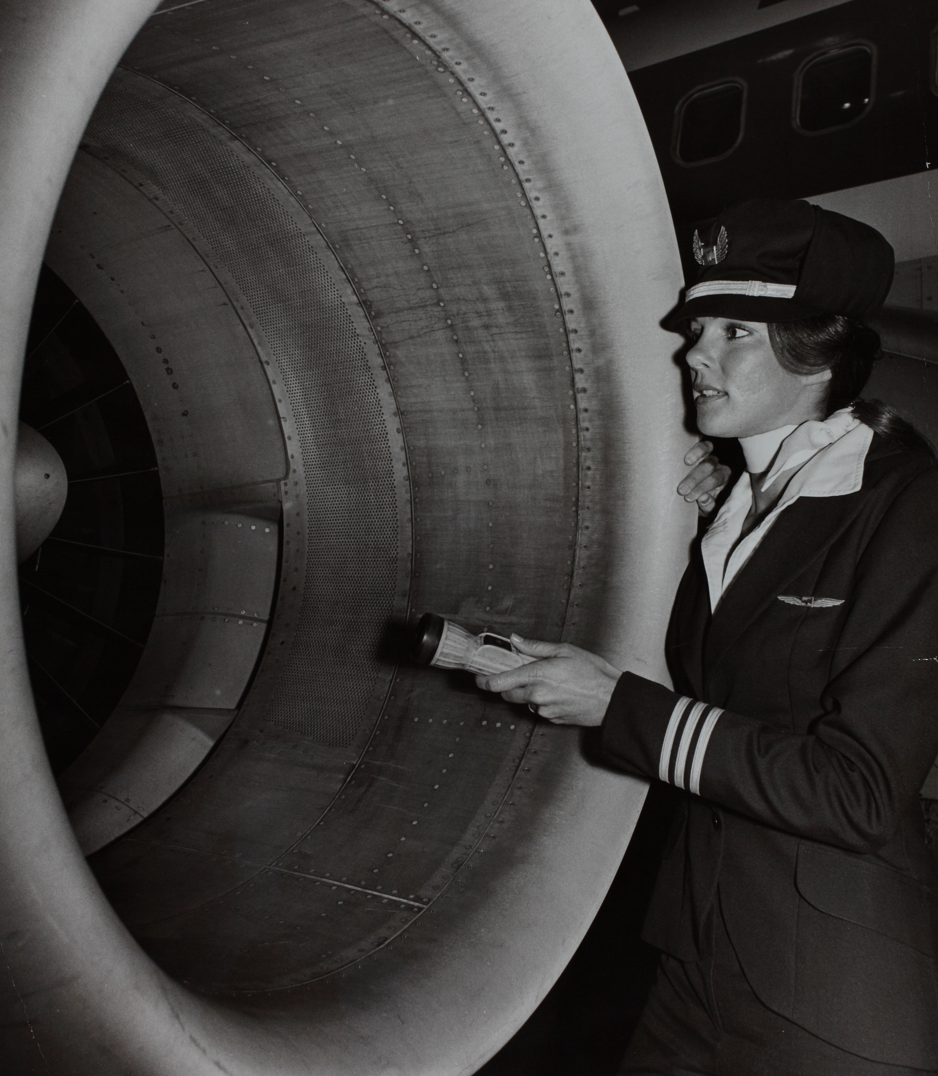 Airline pilot, Terry London RinehartCatalog #: WOF_00404 Repository: San Diego Air and Space Museum Archive